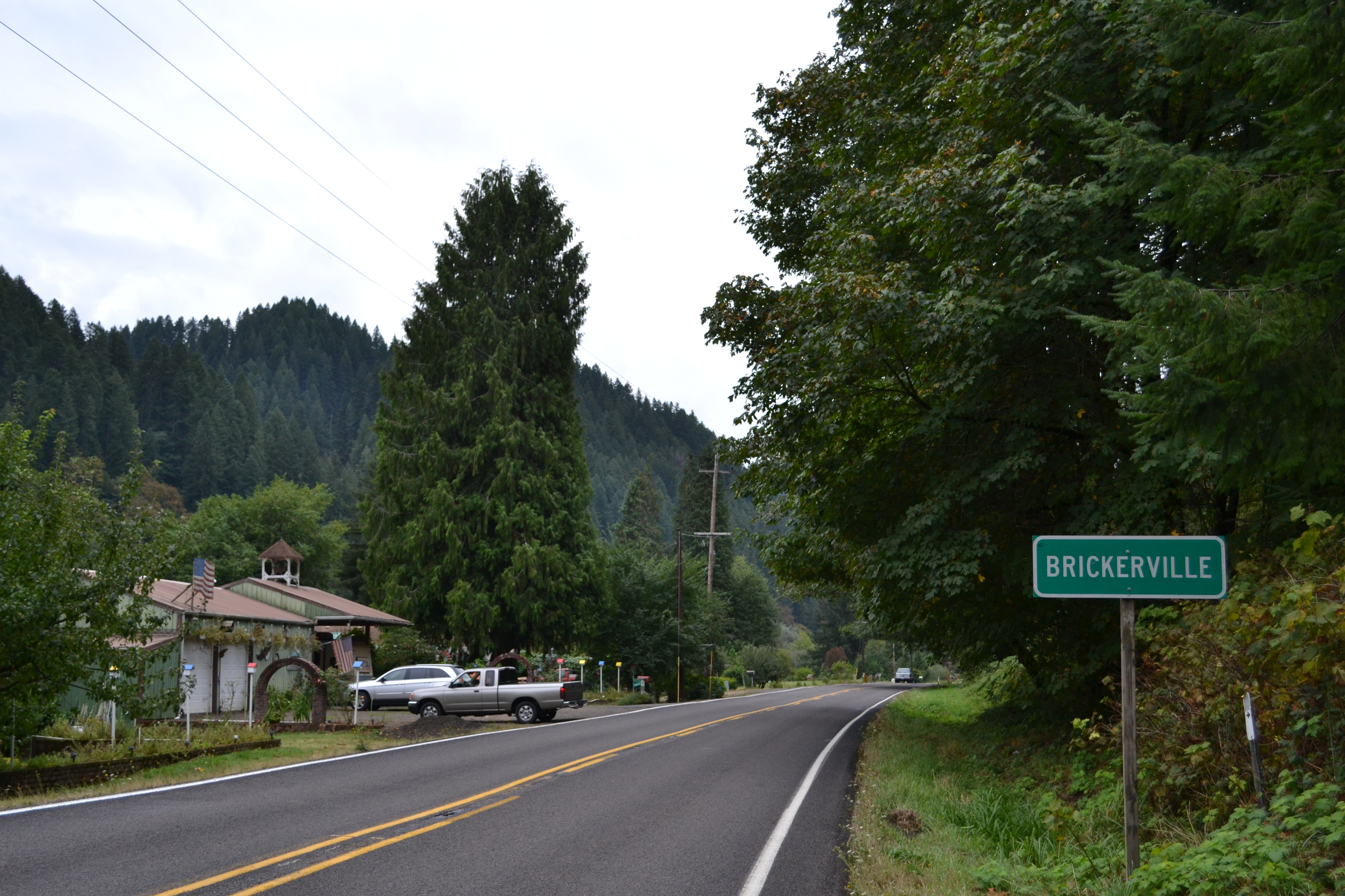 Brickerville, Oregon